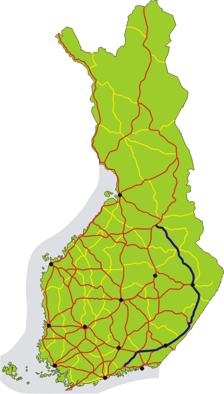 Map of the main road 6 in Finland, shown in dark blue. The other 1st class main roads (numbers 1–29) are red, 2nd class main roads (numbers 40–98) yellow. Black dots show the 12 biggest urban areas.